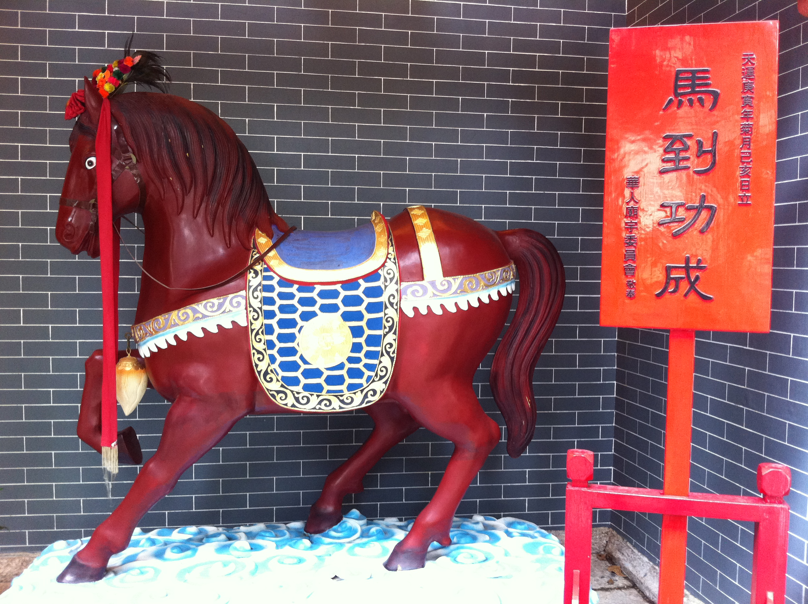 九龍深水埗關帝廟, Mo Tai Temple, Hai Tan Street, Sham Shui Po, Hong Kong